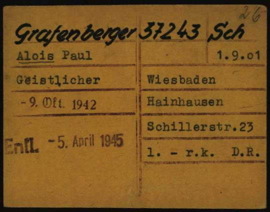 Registration card of Aloysius (Alois) Paul Grafenberger as a prisoner at Dachau Nazi Concentration Camp